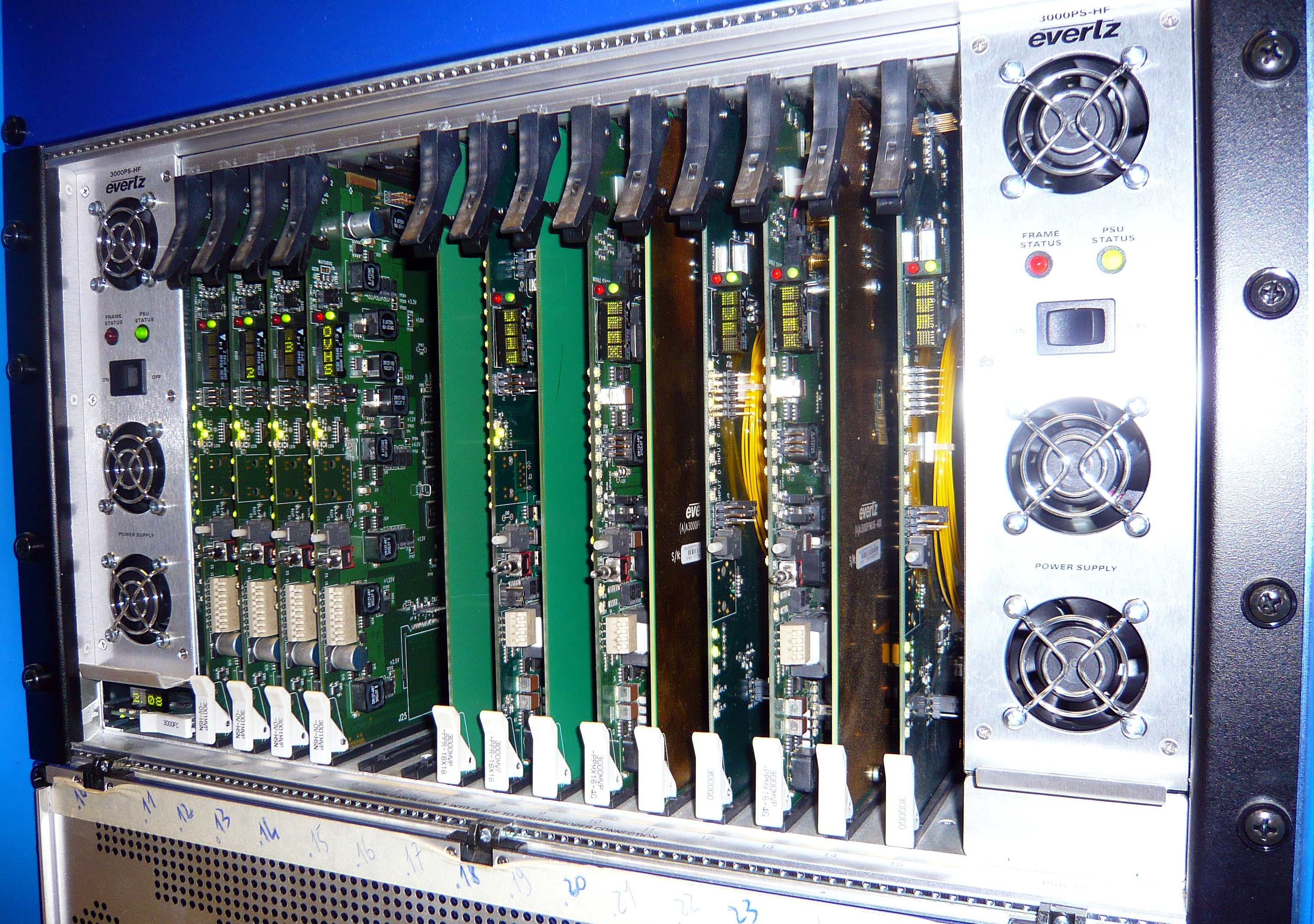 An Evertz MVP multi image processor. Mainframe chassis is open. Please note the redundant power supply.